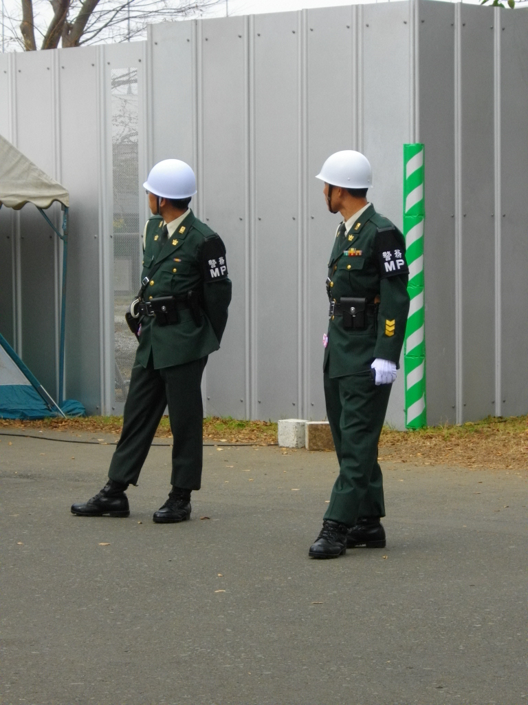 JGSDF(Japan Ground Self-Defense Force) Military Policemen